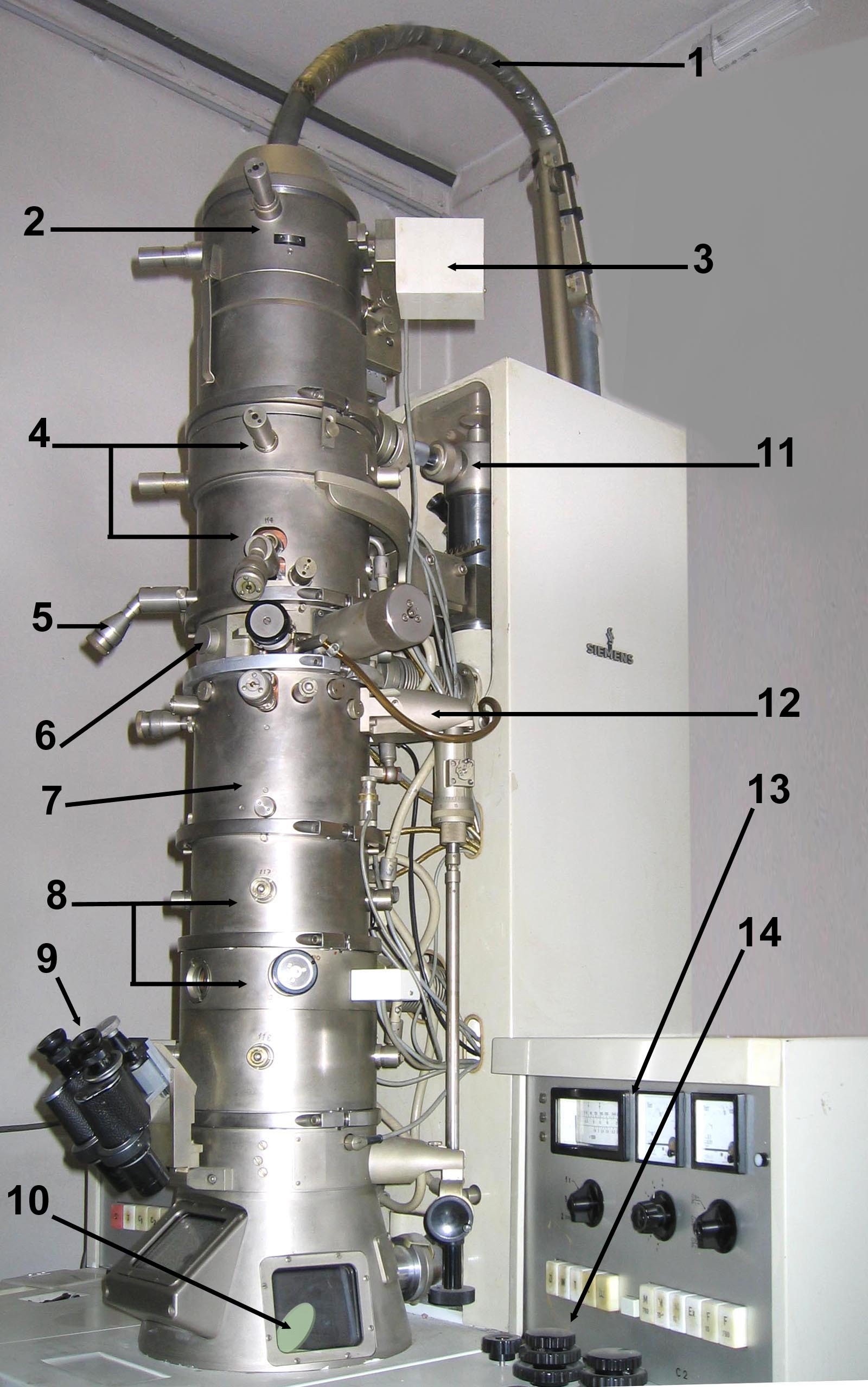 Siemens electron microscope (1969), Type: Elmiskop 101